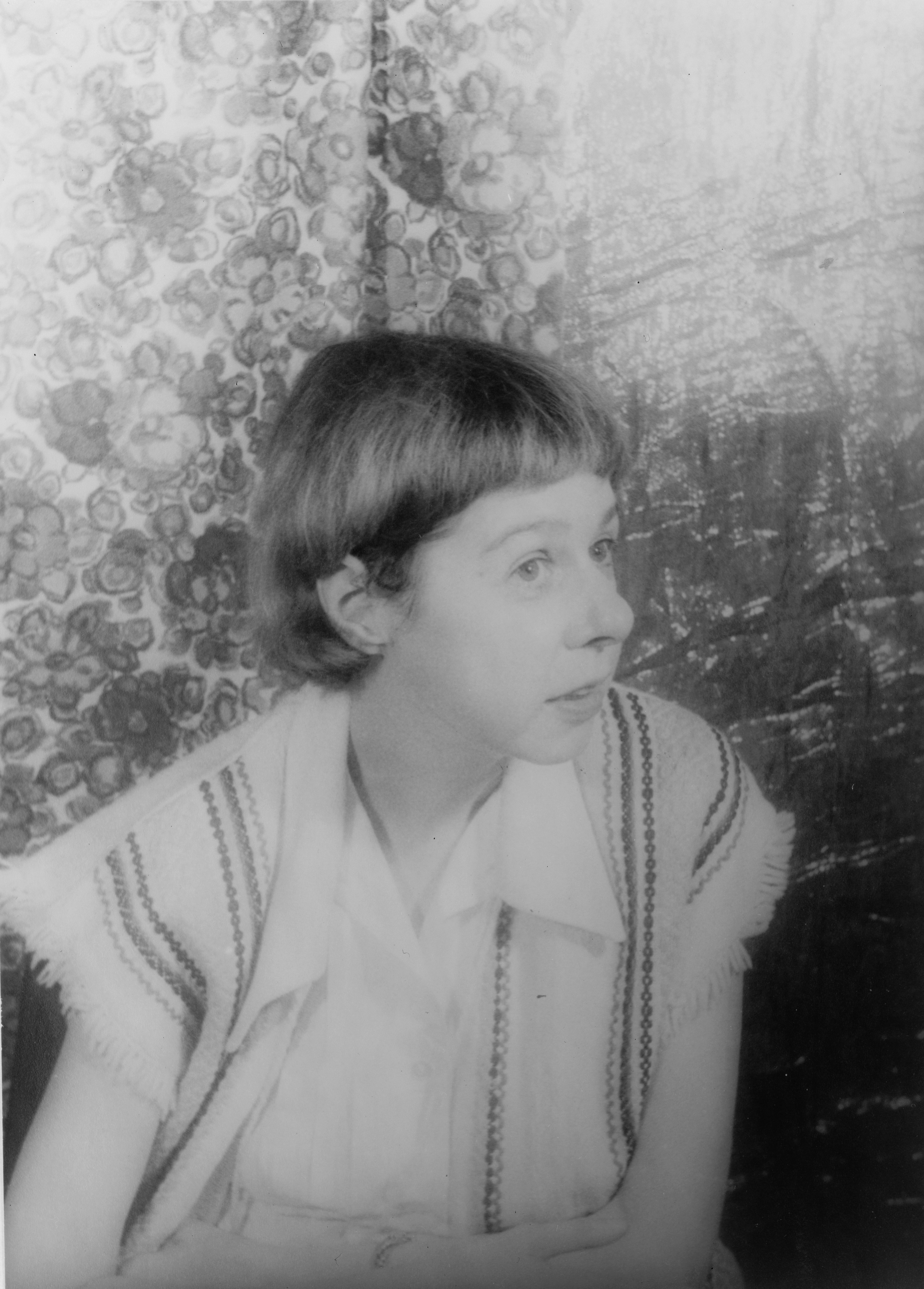 Carson McCullers photographed by Carl Van Vechten, 1959 July 31